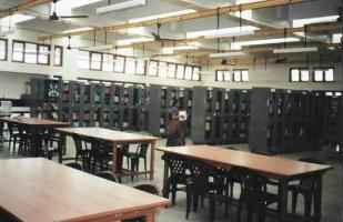 Photo of library of Padre Conceicao College of Engg., Verna, Goa, India